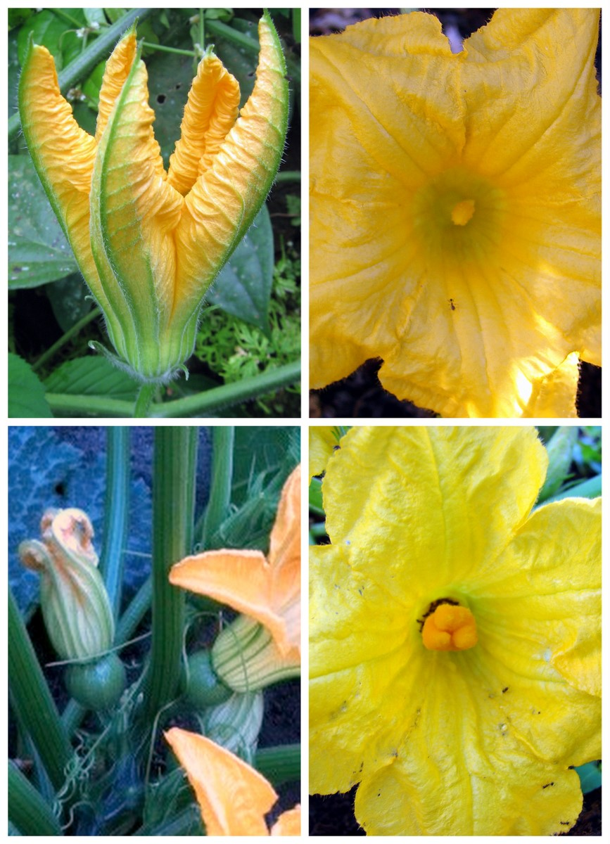 Squash flowers (male on top and female below)